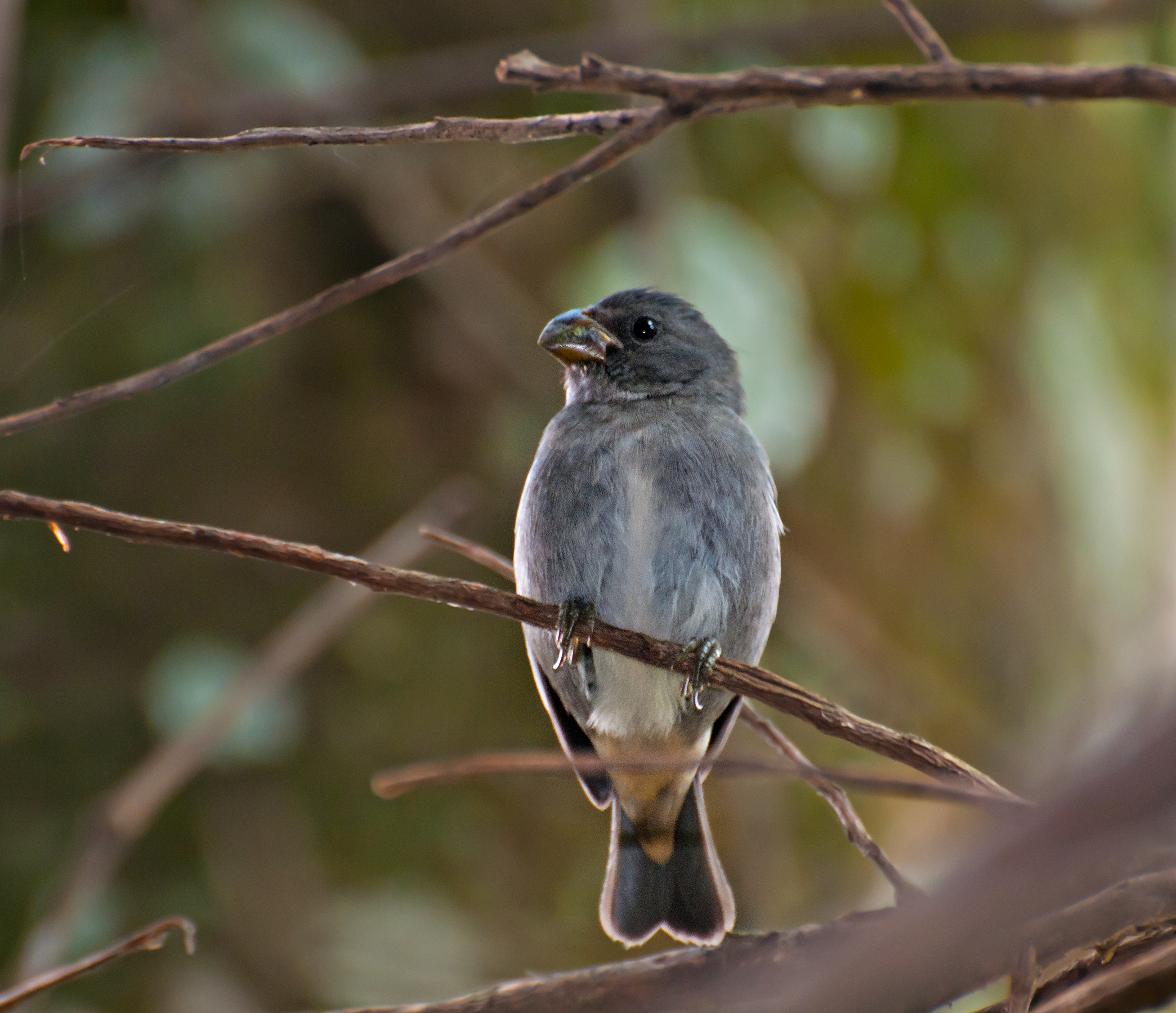 A Temminck's Seedeater in Parque Estadual da Serra da Cantareira, São Paulo, Brazil.